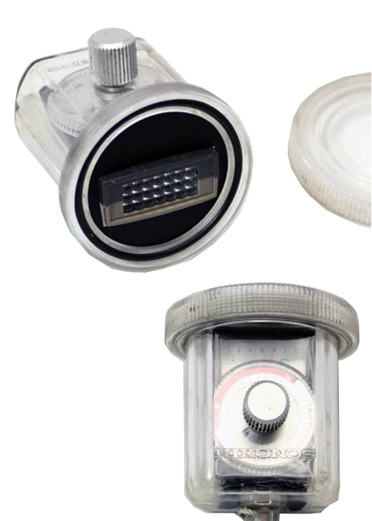 Nikonos light meter housing with a Sekonic L-86 Auto-Lumi inside